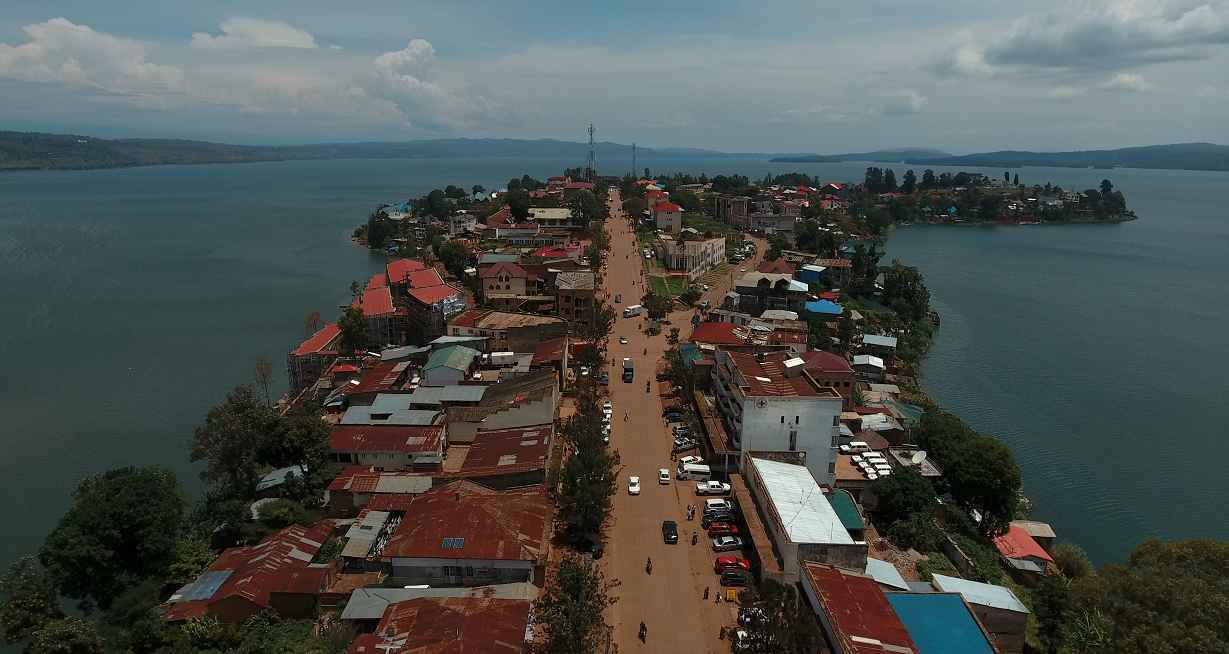 This is an image of "African people at work" from Democratic Republic of the Congo